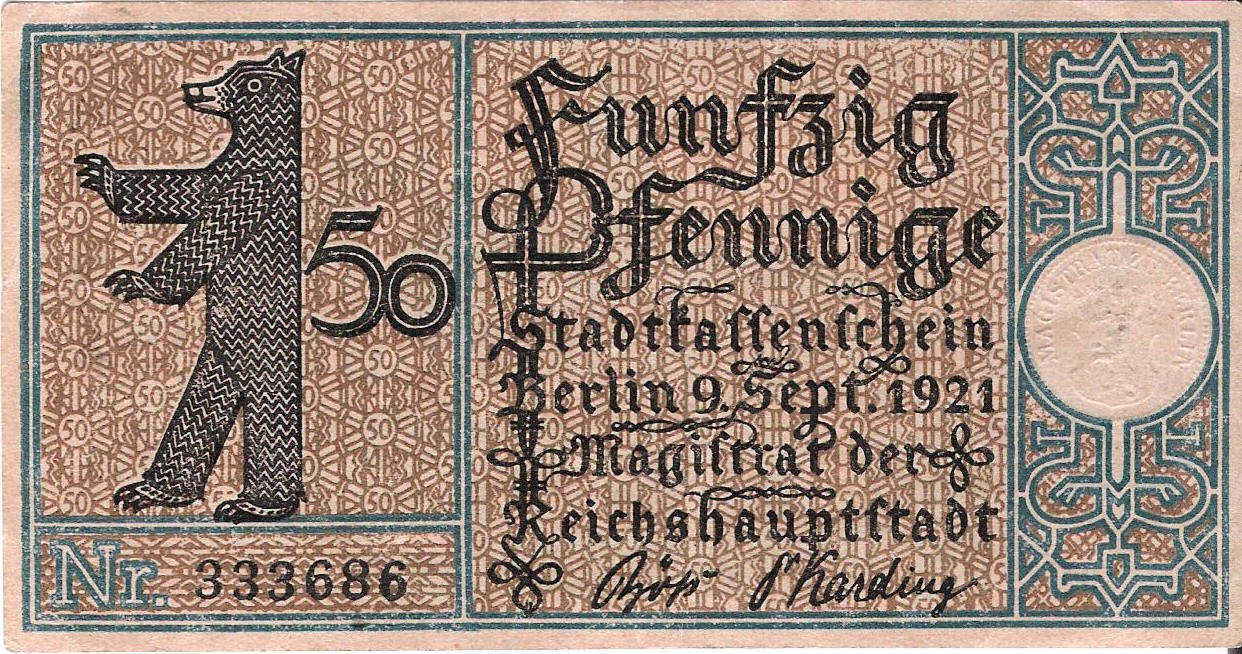 local emergency money, Berlin 1921